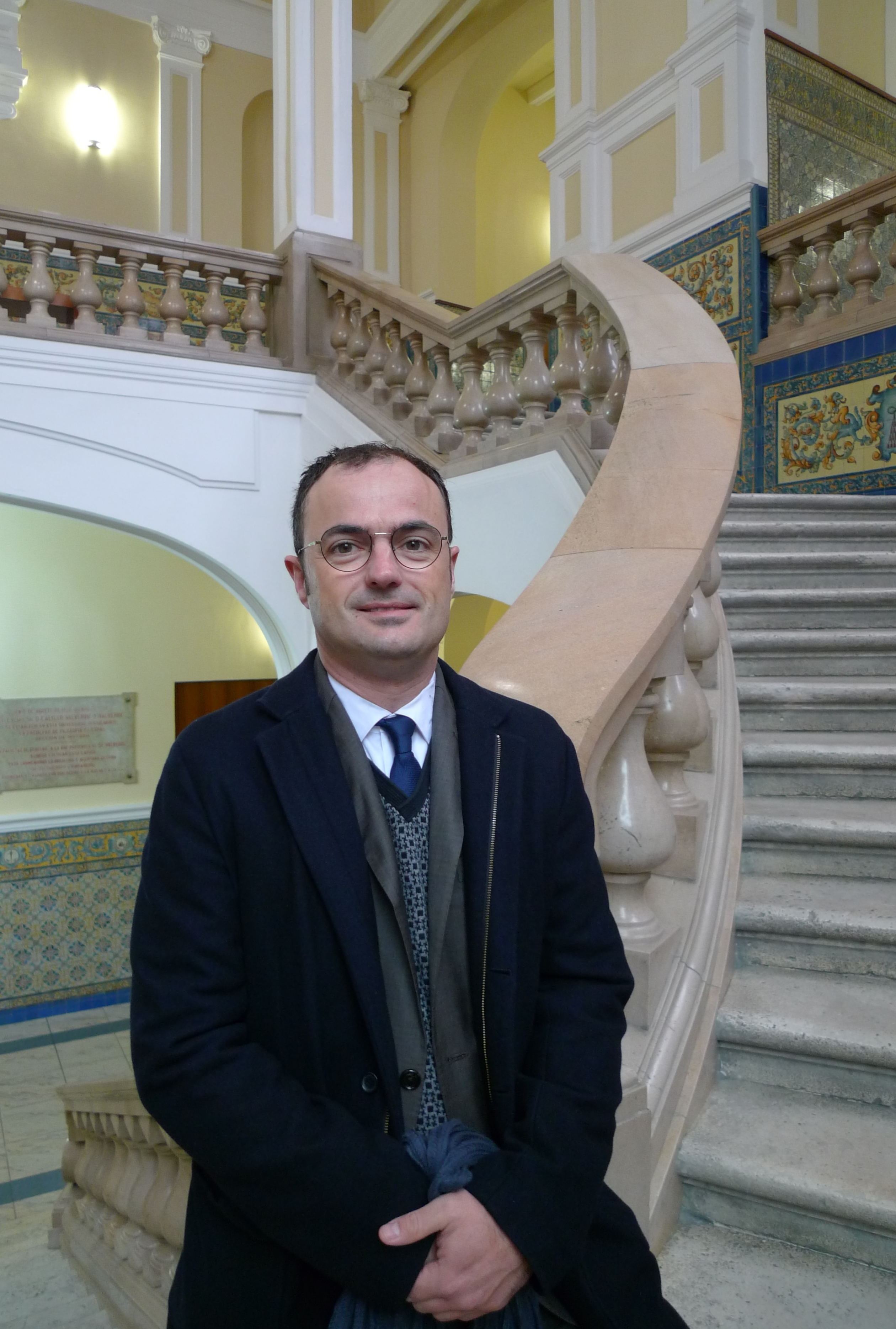 Alfons Aragoneses, professor of history of law at Pompeu Fabra University, photographed at the Faculty of Law of Valladolid, November 2018.